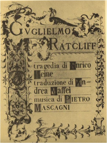 Cover of the libretto of the opera Guglielmo Ratcliff by Mascagni